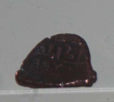 Copper fulus of Shirvanshah I Gershasb